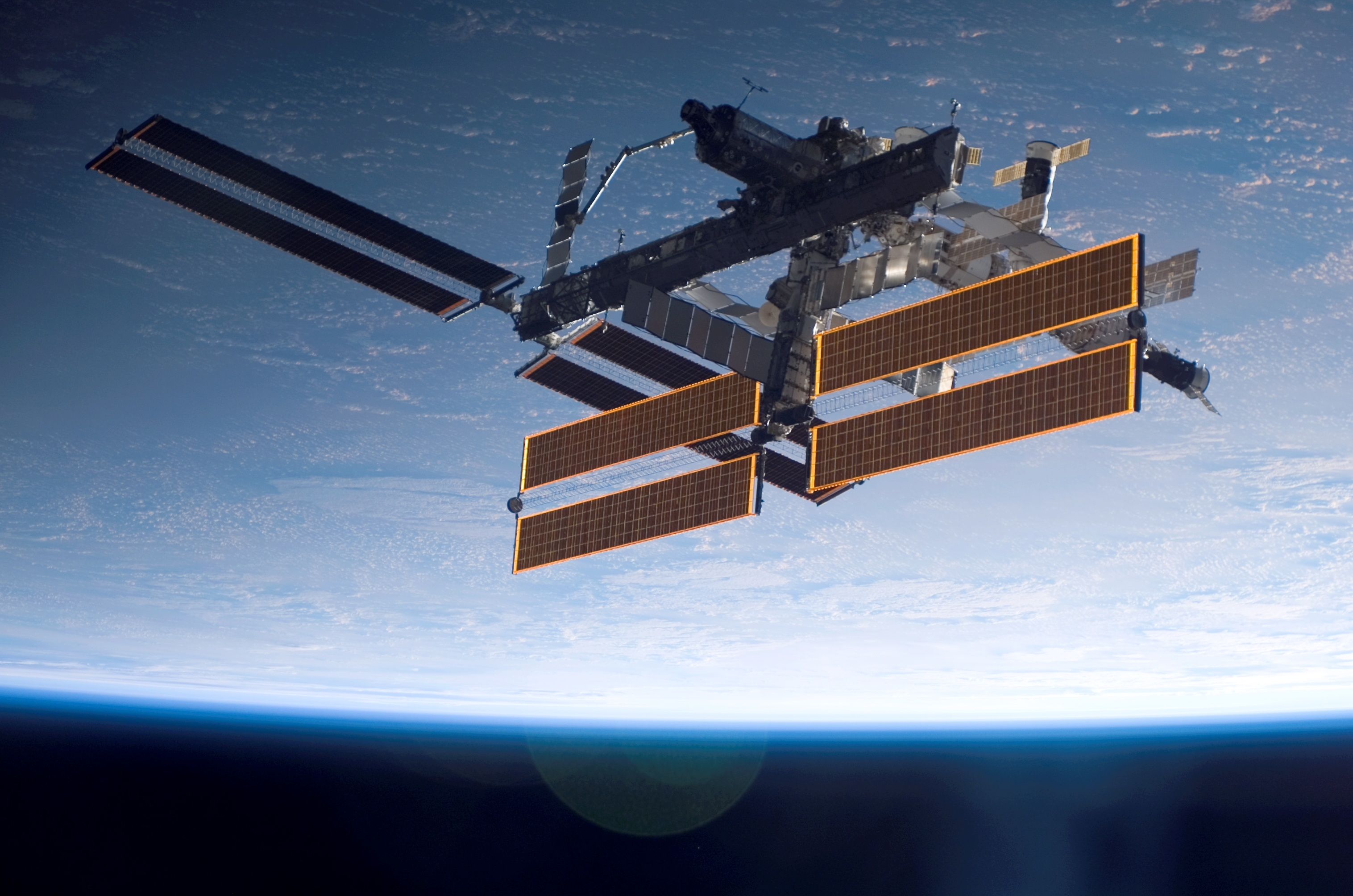 This view of the International Space Station, backdropped against a blue and white Earth, was taken shortly after the Space Shuttle Atlantis undocked from the orbital outpost at 7:50 a.m. CDT. The unlinking completed six days, two hours and two minutes of joint operations with the station crew. Atlantis left the station with a new, second pair of 240-foot solar wings, attached to a new 17.5-ton section of truss with batteries, electronics and a giant rotating joint. The new solar arrays eventually will double the station's onboard power when their electrical systems are brought online during the next shuttle flight, planned for launch in December.